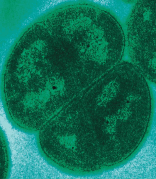 Transmission electron microgragh (TEM) of Deinococcus radiodurans